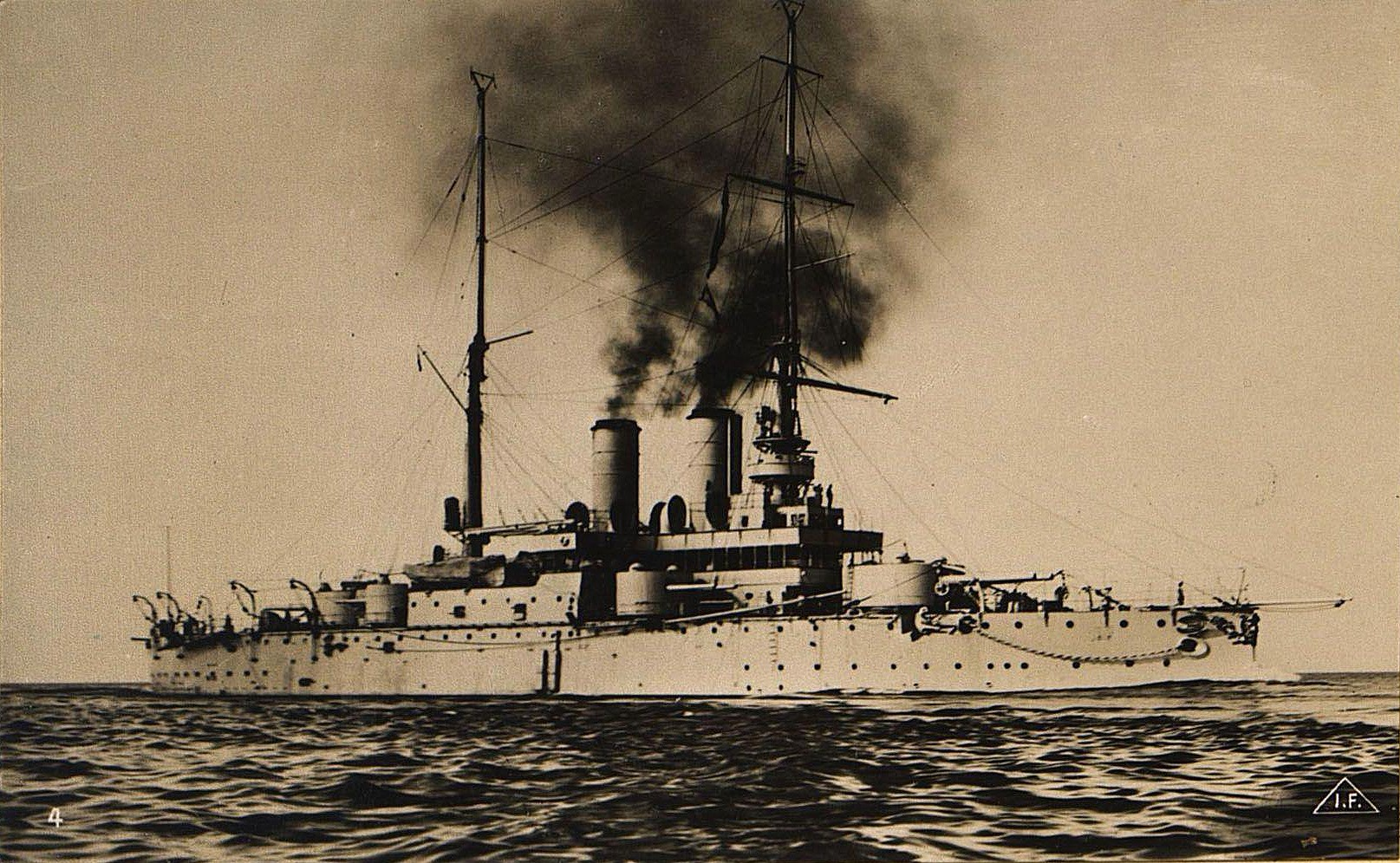 Russian Battleship Rostislav (1900-1920)